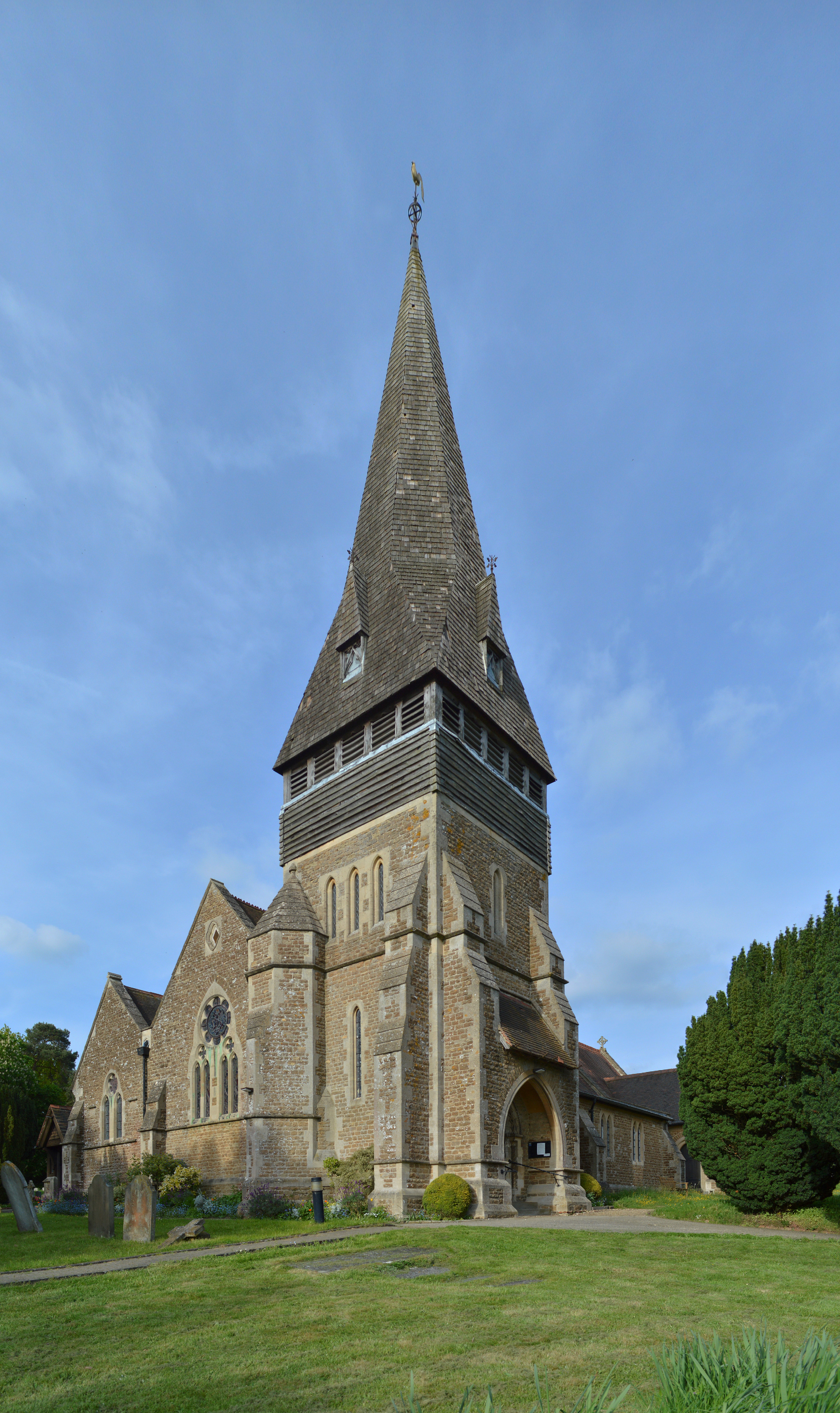 St Michael and All Angels parish church, Sandhurst, Berkshire, seen from the southwest